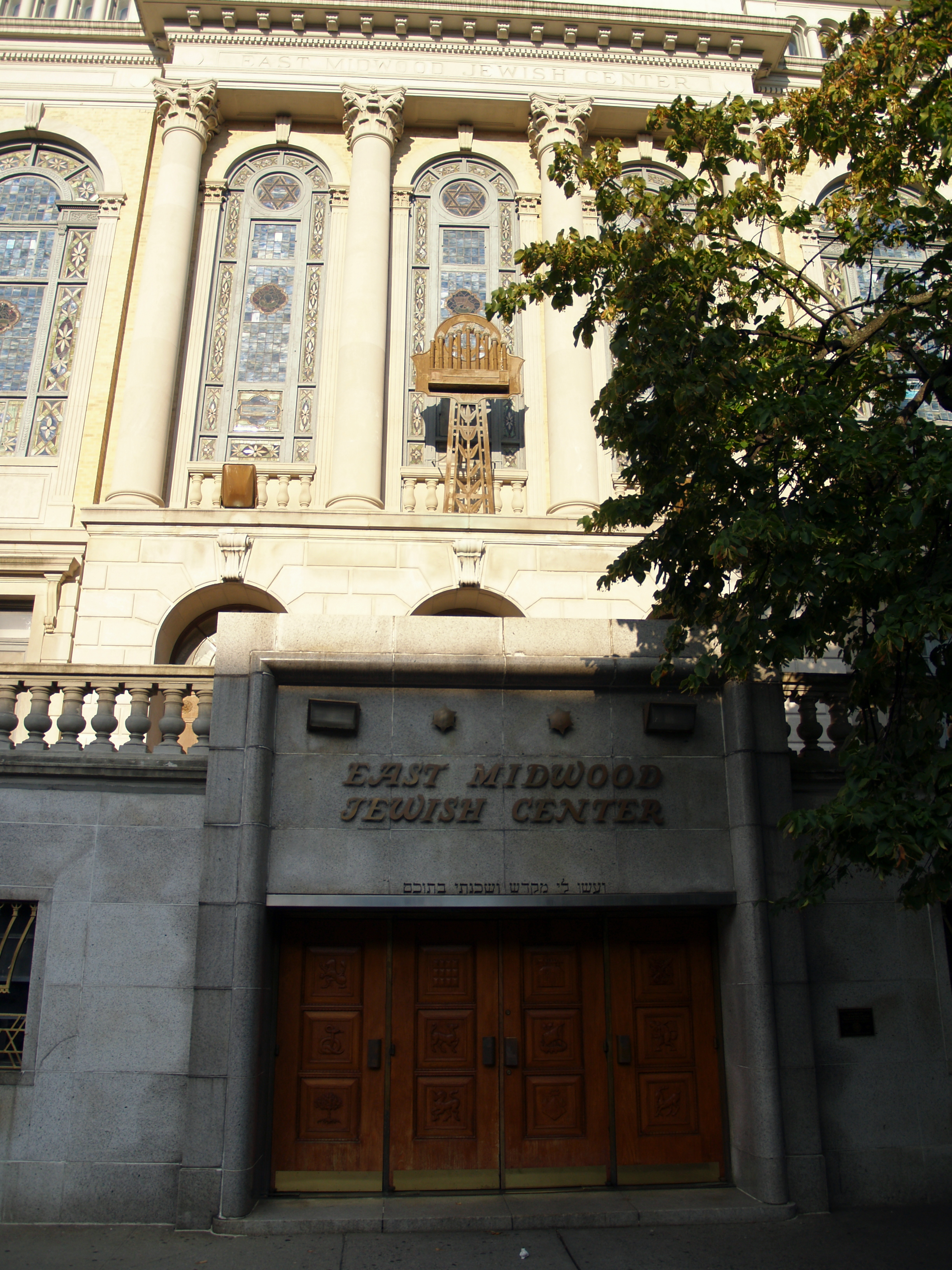 East Midwood Jewish Center in Brooklyn, New York.